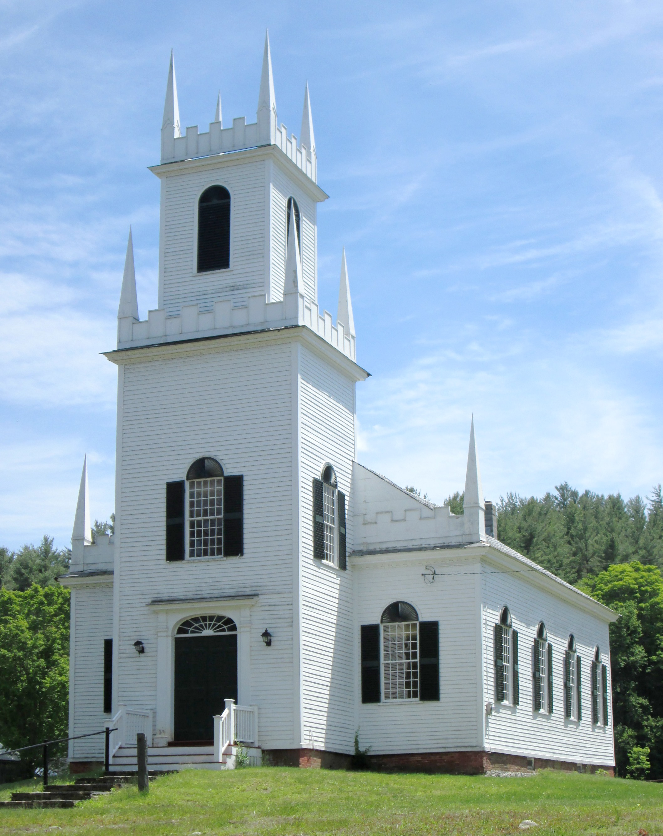 Christ Church located at Melendy Road and US Route 5 in Guilford, Vermont was built in 1817 in the Gothic Revival style, and was the first Episcopal Church in Vermont. It is listed on the National Register of Historic Places.